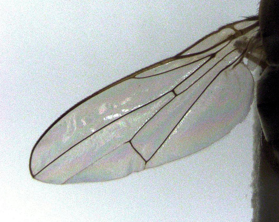 wing of Brachydeutera sydneyensis